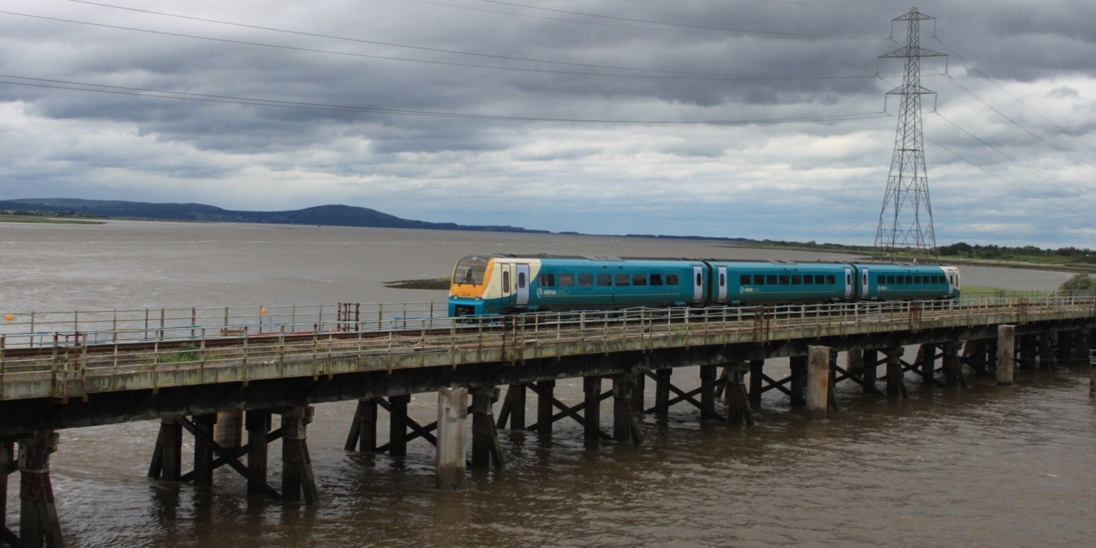 Arriva Trains Wales' unit 175108 crosses the old wooden Loughor Viaduct near Swansea. At the time work was underway to strengthen and restore it to two track.